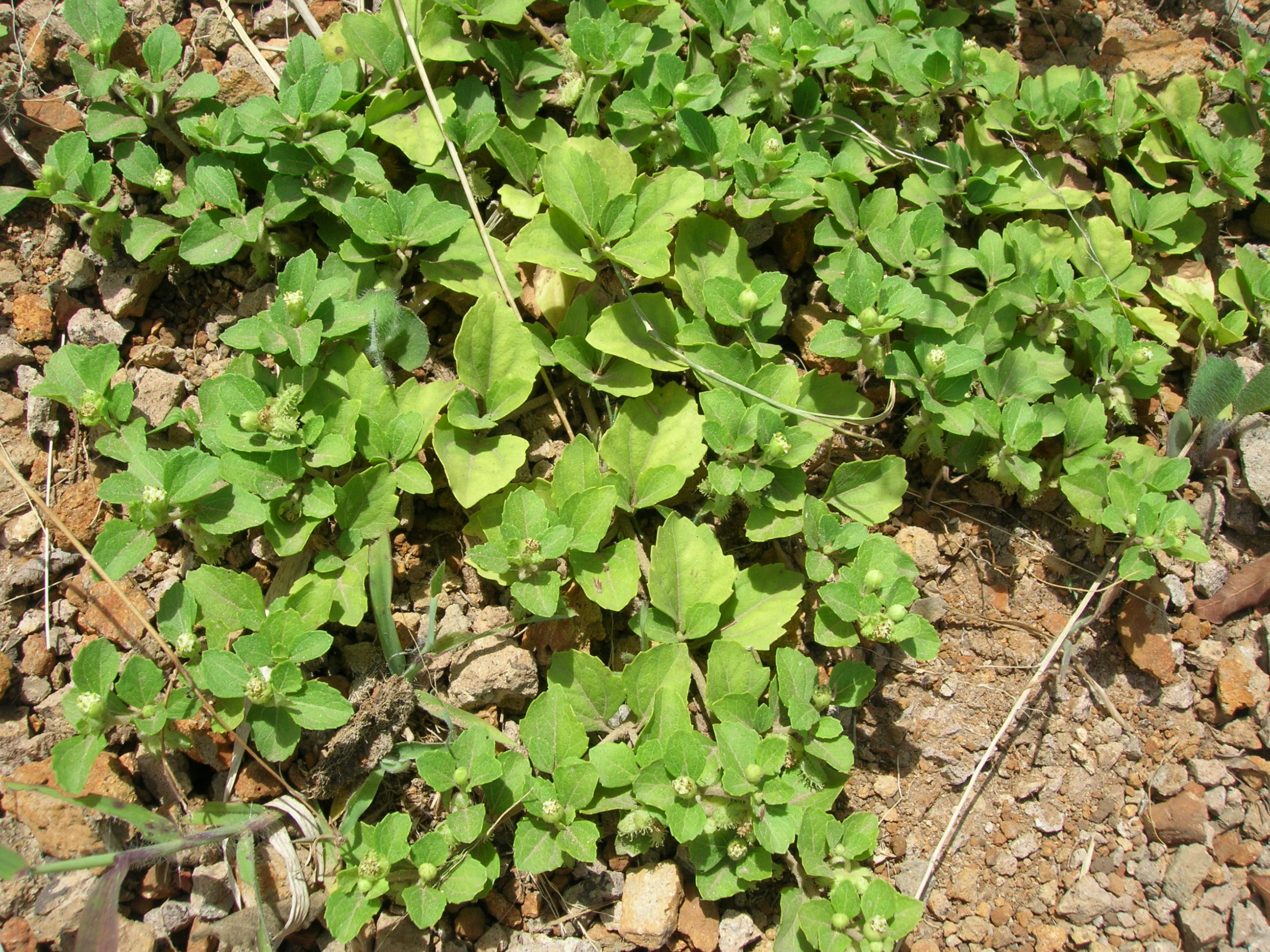 Acanthospermum australe (habit). Location: Molokai, Kukumamalu gulch